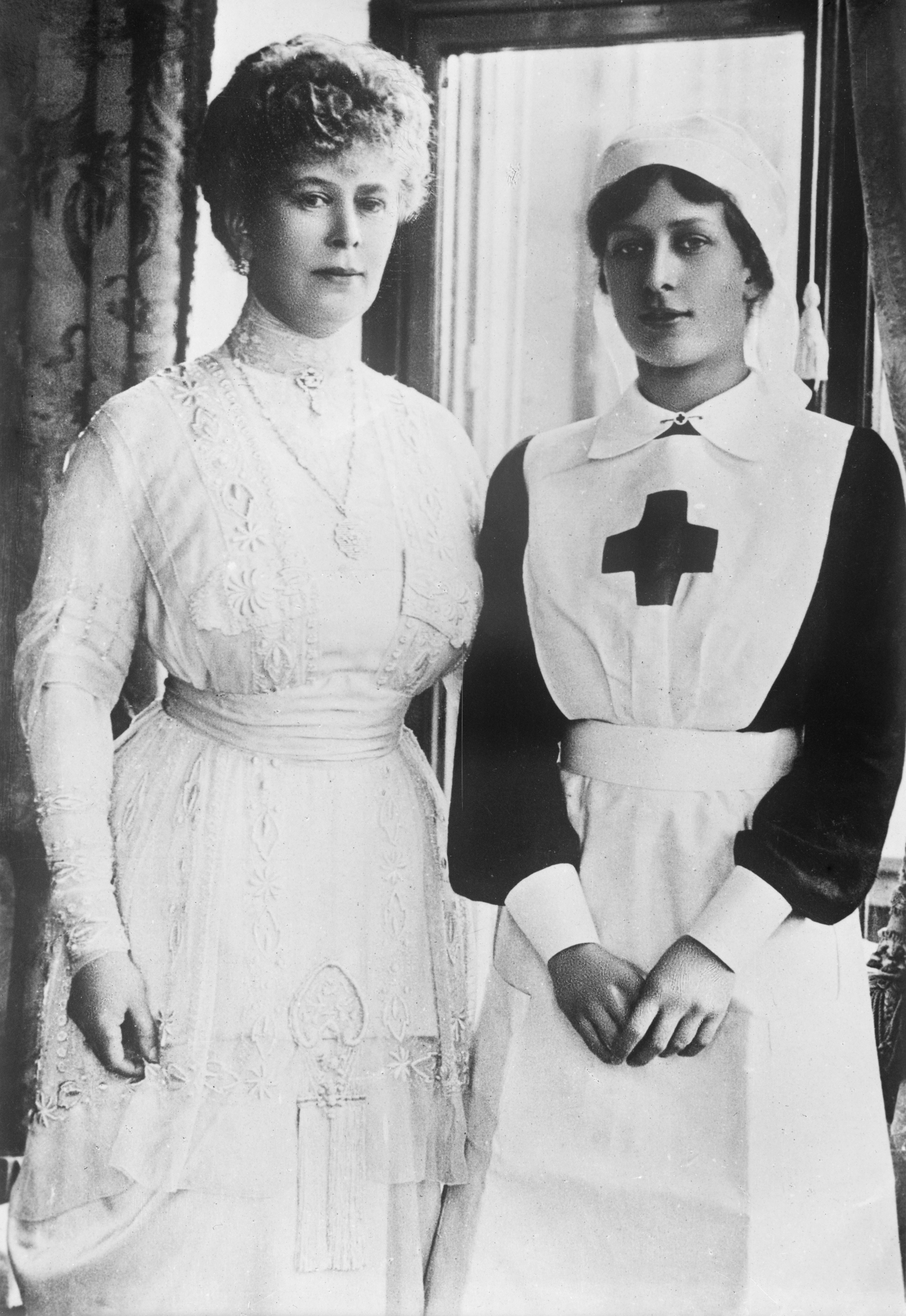 Queen Mary (1867-1953) and her daughter Mary, Princess Royal, later Countess of Harewood (1897-1965) during World War I.